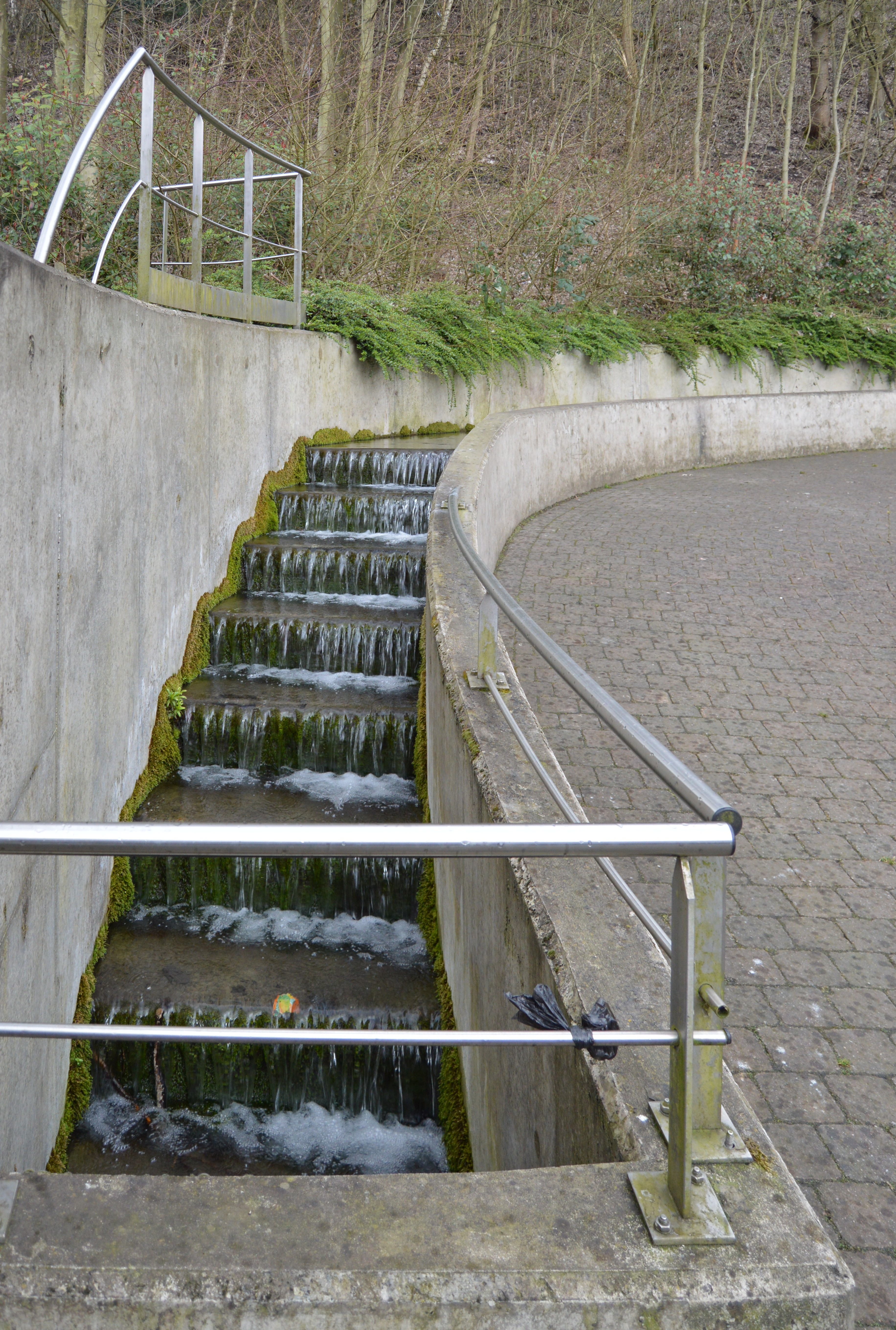 The river Lègia at Ans Belgium